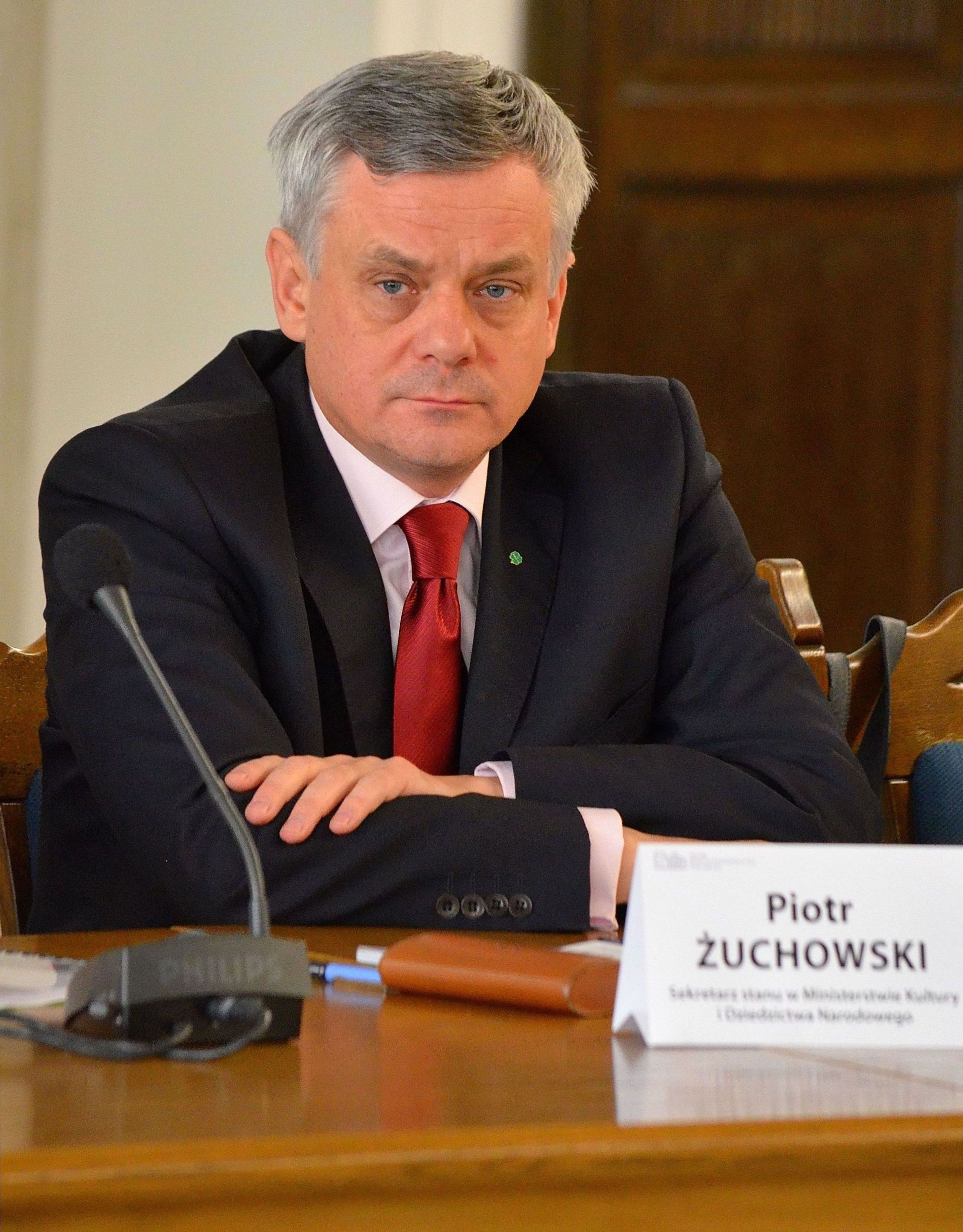 Piotr Żuchowski during the conference "System of industrial property rights in Poland and economic development" in the Polish Sejm